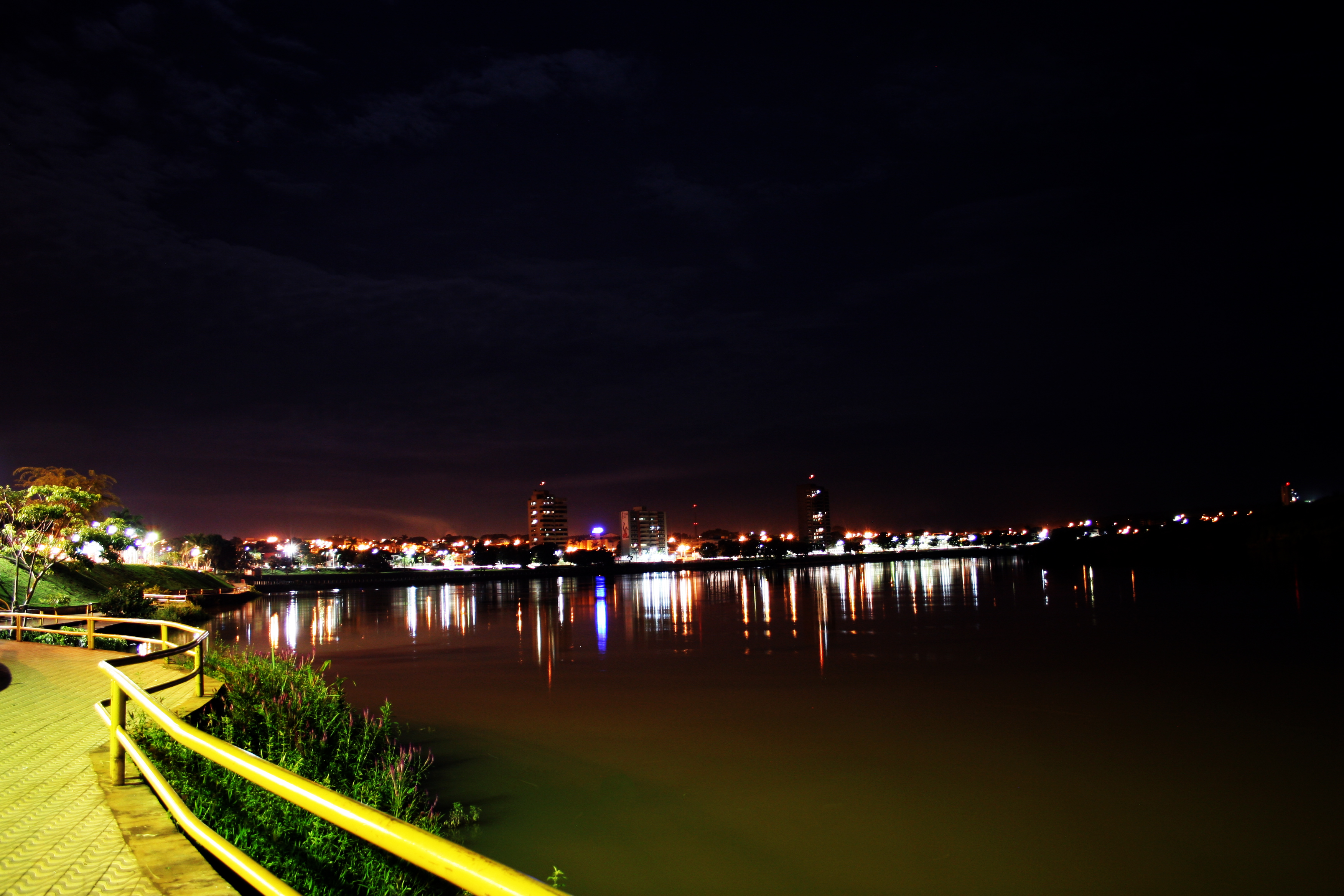 View of Itumbiara at night from Beira Rio